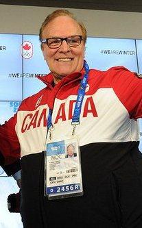 Cropped version of source file, for use in infobox on Marcel Aubut's Wikipedia page.